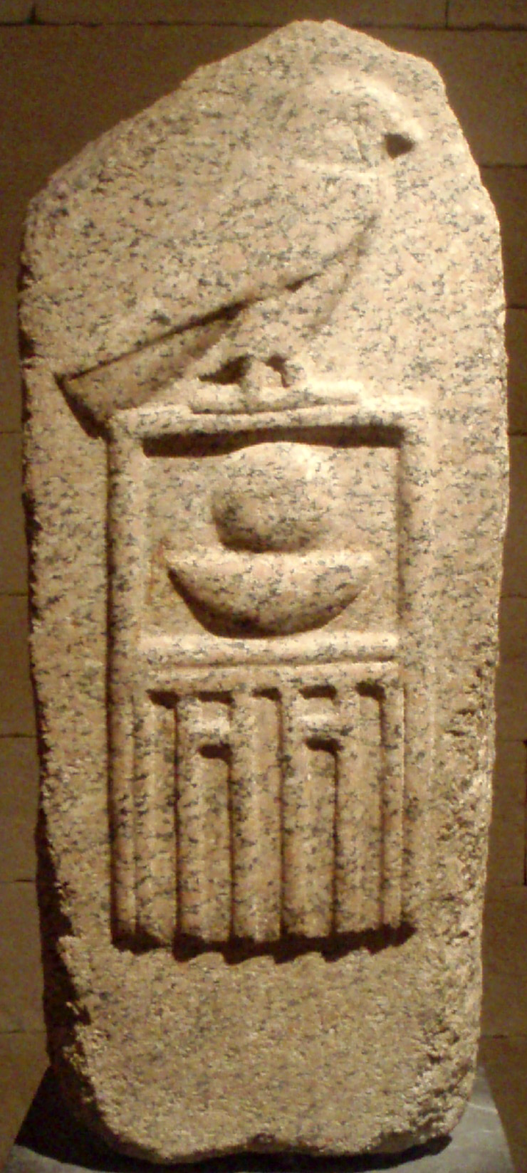 Stela of the 2nd dynasty pharaoh Raneb. Circa 2880 B.C.